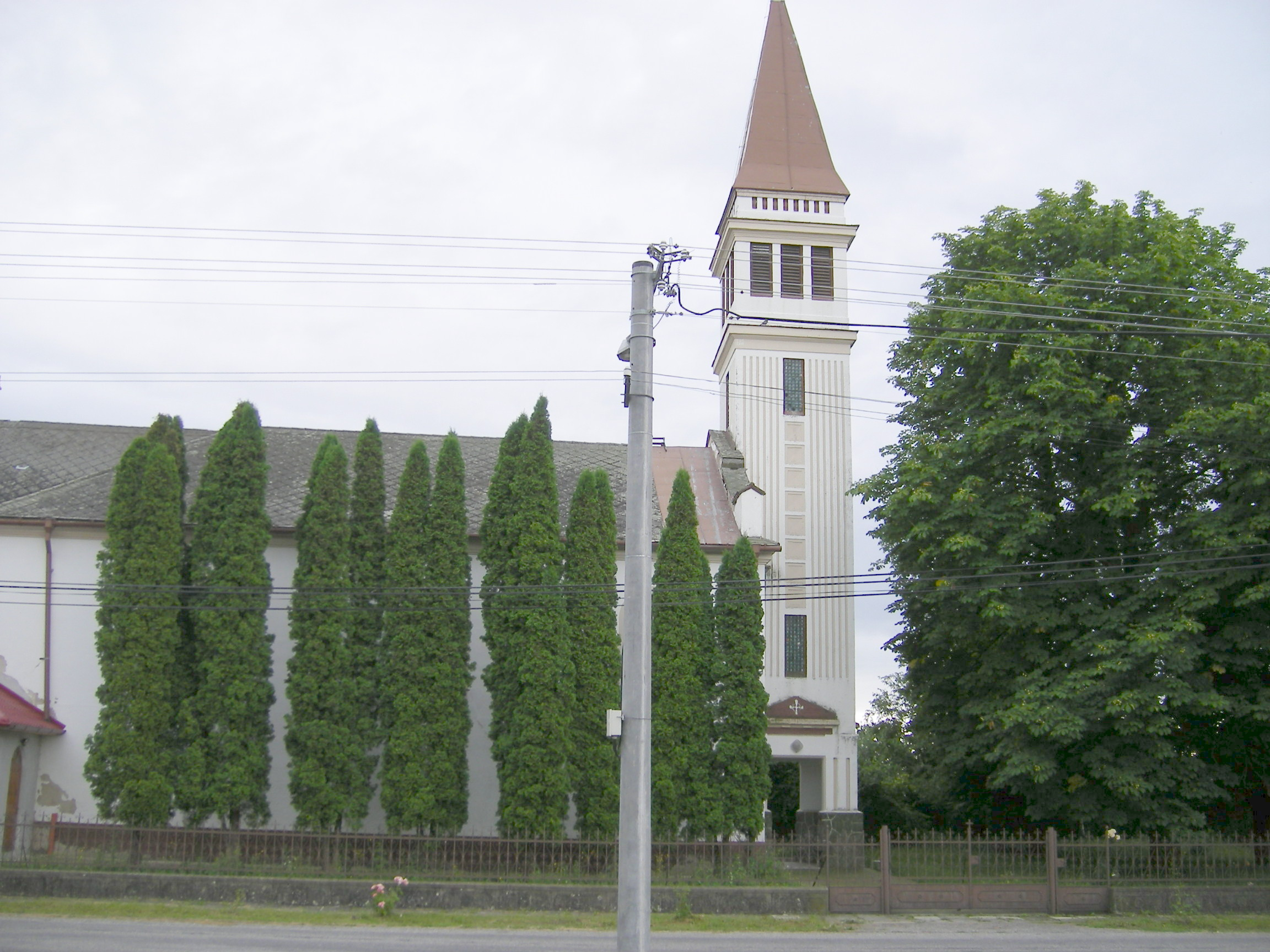 Ondrejovce catholic church